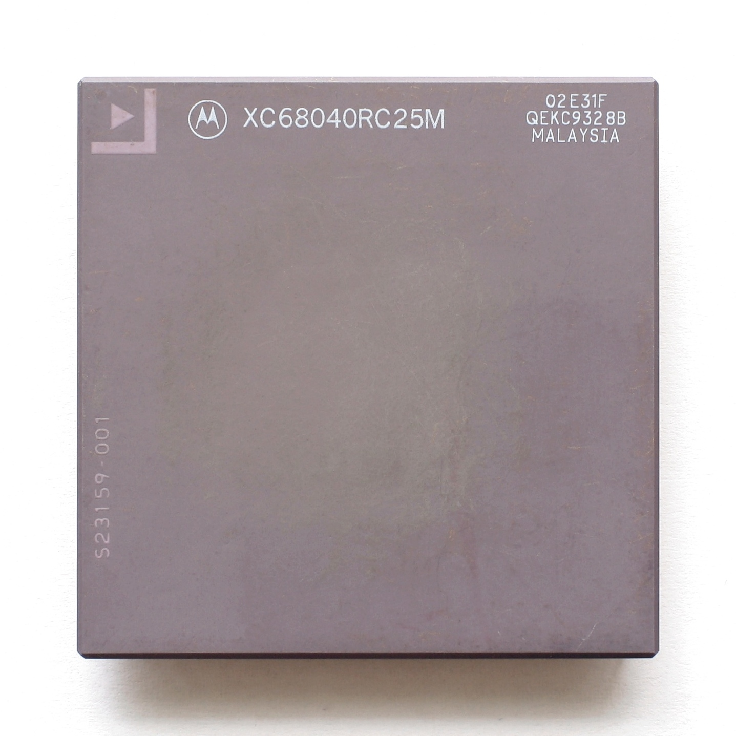 CPU Motorola XC68040 (1993 made)